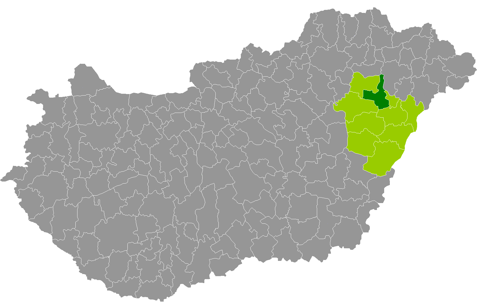 Location of Hajdúböszörmény District, Hajdúu-Bihar, Hungary